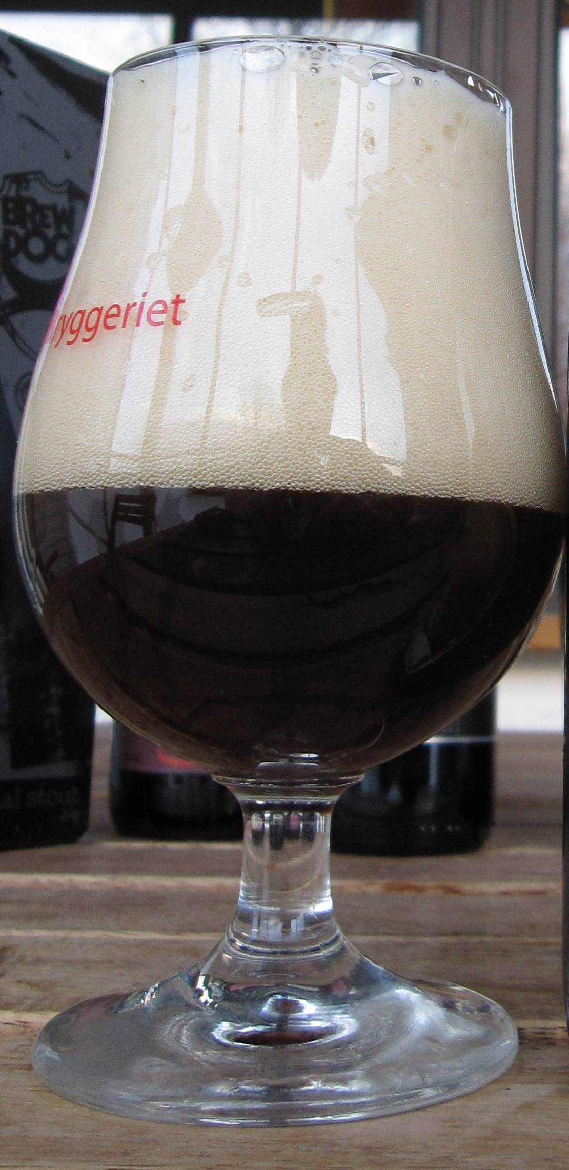 A bottle of Brune or Bruin from Brasserie de l’Abbaye des Rocs in Montignies-sur-Roc, Belgium. Abbaye des Rocs Brune is a 9% abv Belgian brown ale, this bottle had a best before date of 21 November 2014 so it was still fairly fresh. It poured a a coppery brown color with a beige head. It smelled faintly of citrus, with a mild malty sweetness underneath. As it warmed up I got more ripe fruits too. Mouthfeel was medium heavy with a silky smooth texture. Flavor started sweet with notes of ripe fruits and some yeast. It had a rounded sweetness, not sticky, which lingered in the long aftertaste along with some fruity notes. Overall a very elegant beer - sweet, fruity and dangerously drinkable.